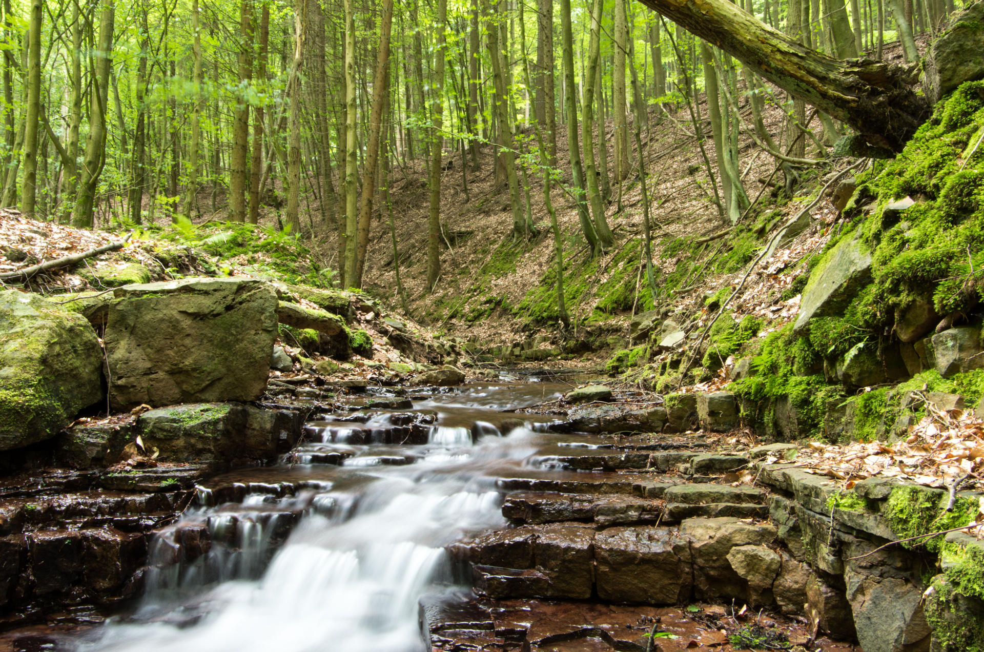 Brook Steimcke - red sandstone steps